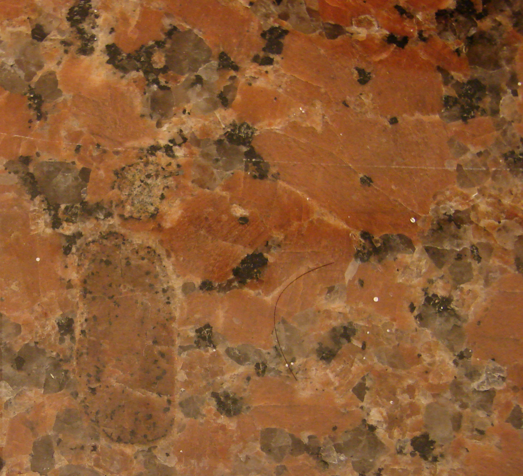 Rapakivi texture in Capão Bonito granite (polished slab). São Paulo, Brazil. The rounded k-feldspar has 2cm long by 1cm wide and is rimmed by plagioclase.